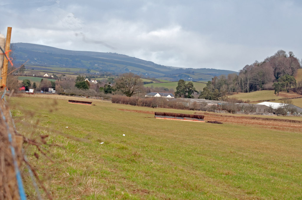 Buckfastleigh Racecourse Though no longer enjoying its earlier status, still in use for National Hunt races.